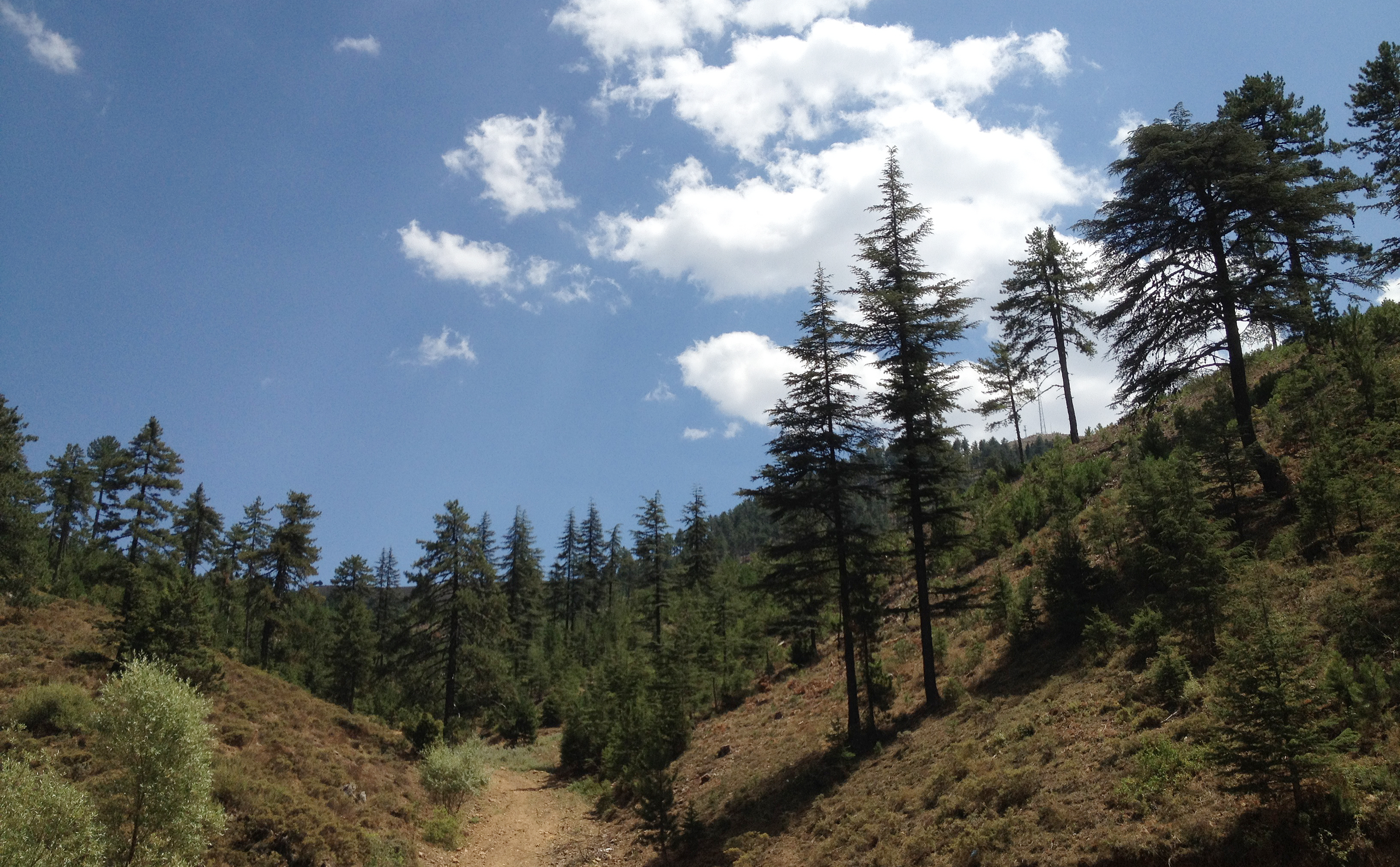 Black pine (Pinus nigra) and Cedar trees in the Cöbük black pine forest in Saimbeyli district. Adana, Turkey.